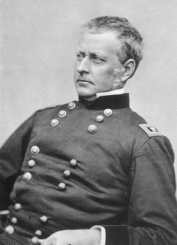 Gen. Joseph Hooker died 1879 , General of US Army during American Civil War (1861-1865).